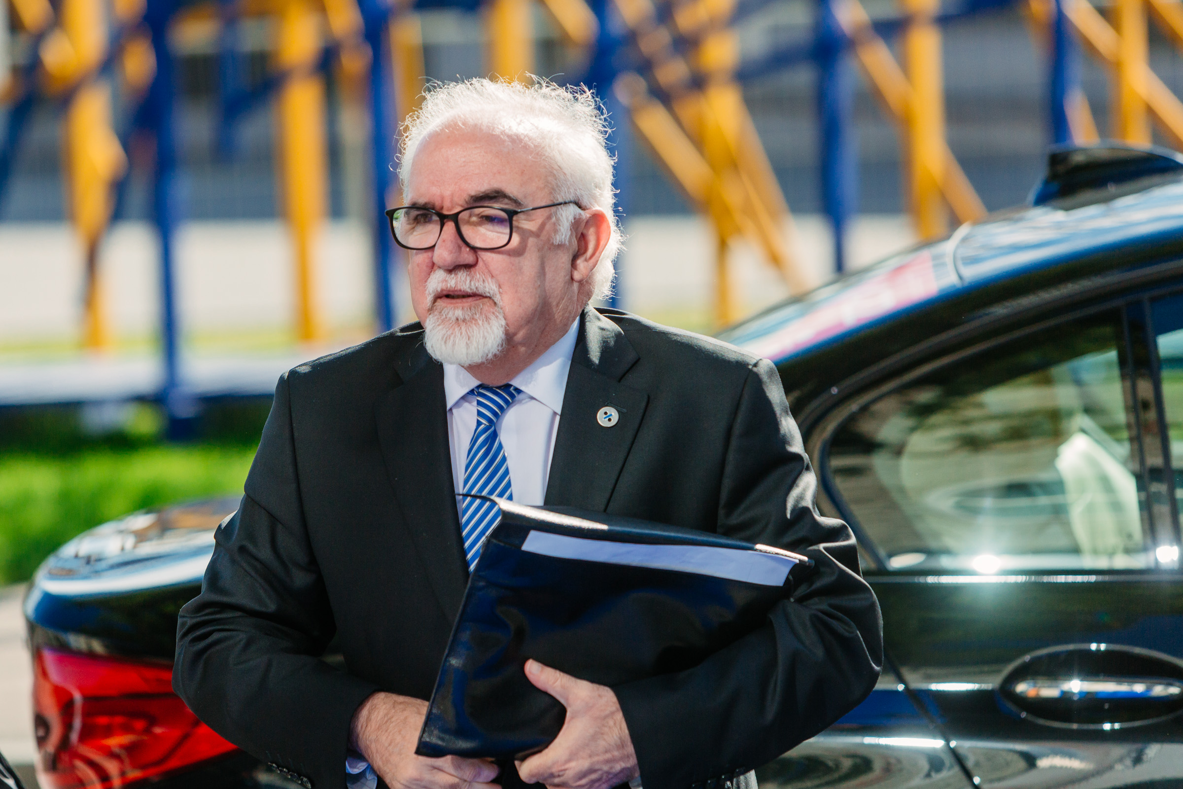 José António Vieira da Silva, Minister, Ministry of Labour, Solidarity and Social Security, Portugal Photo: Arno Mikkor (EU2017EE)